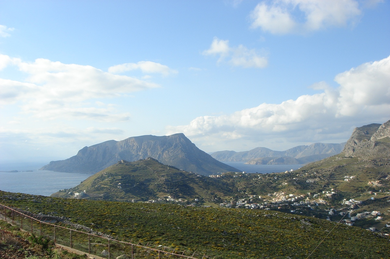 Part of Mprosta (officially Panormos), Vigles hill, Telentos Island and Arginontas peninsula in the background, photo taken from airport